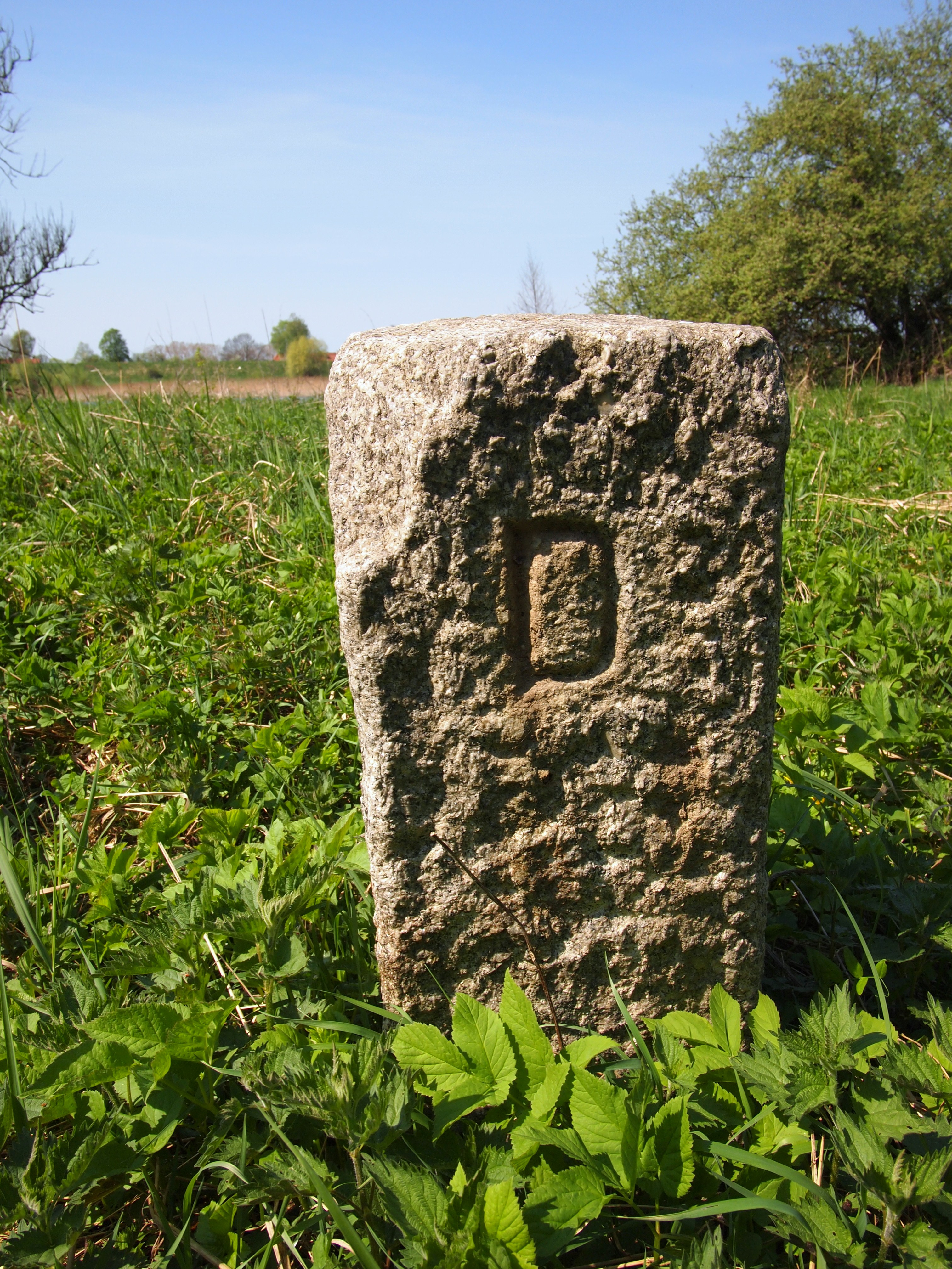 The Free City of Danzig, a border stone in Węgry.